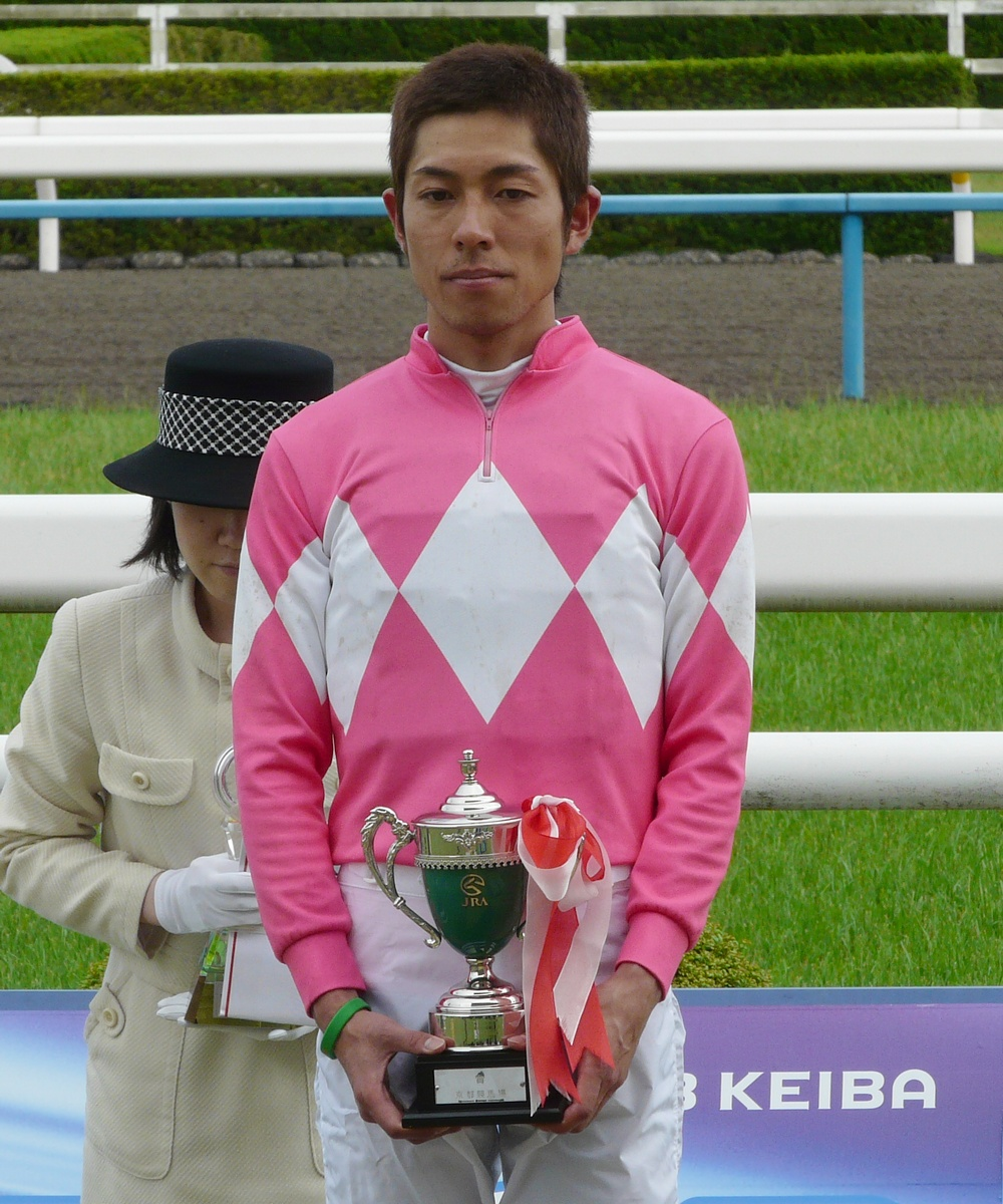 Ryuji-Wada20110522